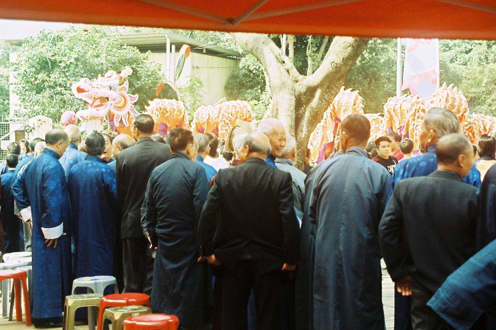 Clan elders watch dragon dancers during a once a decade Da Jiu festival of an alliance of walled villages in Hong Kong's Tuen Mun district.